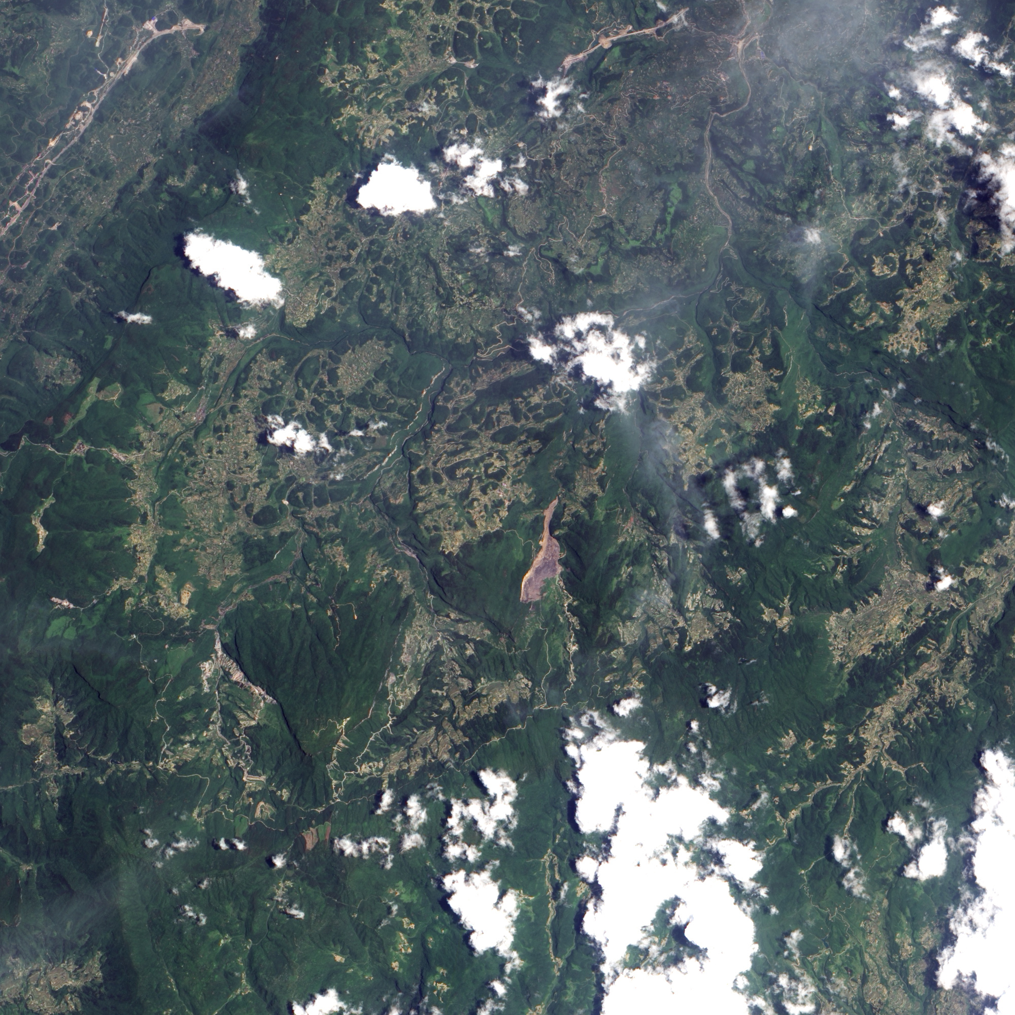 A landslide in the Chongqing region of southern China. The landslide dropped some 12 million cubic meters onto several homes and an iron ore mine, trapping dozens of people. Mountain ridges run generally north-south through this area, and the landslide occurs on the western slope of the middle ridge shown in the image. A giant brown scar of bare land on an otherwise vegetated landscape, the landslide fans out toward the south west. The mountainside collapse appears to affect two roads—one road running along the top of the ridge, which borders the landslide, and another road to the west, which the landslide has partially buried.